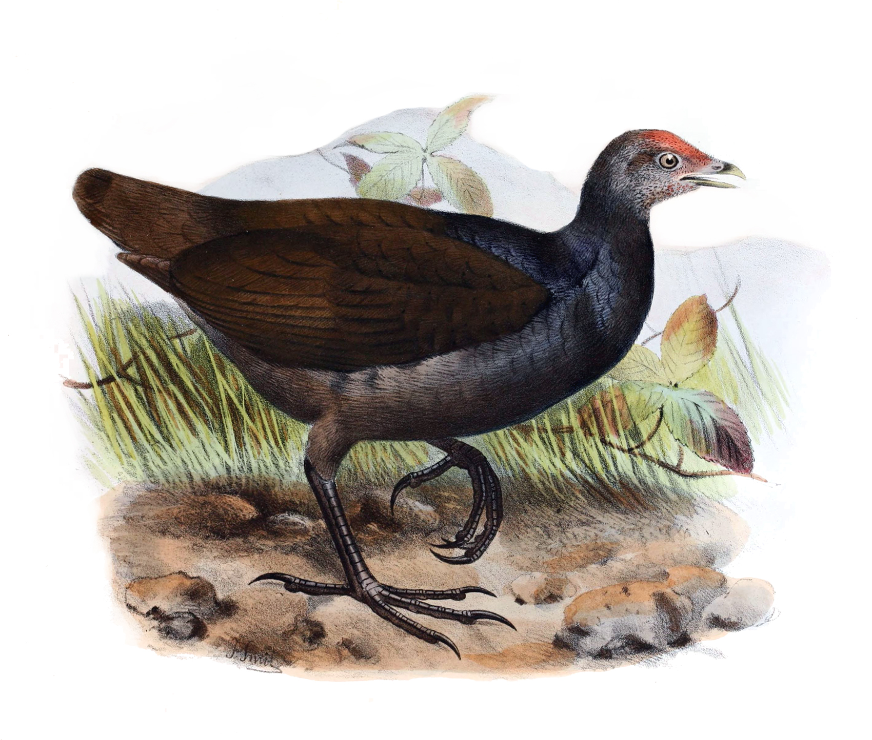 « Megapodius eremita » = Megapodius eremita (Melanesian Megapode)